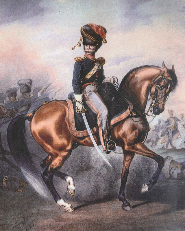 Colonel Berek Joselewicz wearing of Duchy of Warsaw mounted riflemens (pol. Strzelcy konni) uniforms.